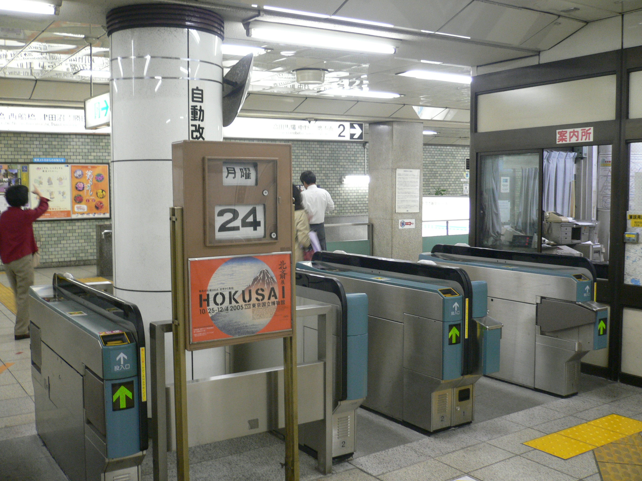 Ticket gate of Kagurazaka Station, Tokyo Metro Tōzai Line